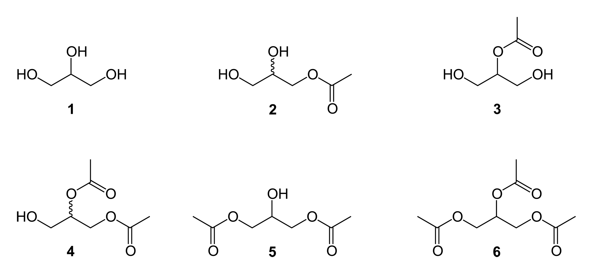 Diagram showing the all possible acetate esters of glycerol. Skeletal formulae are used for brevity.